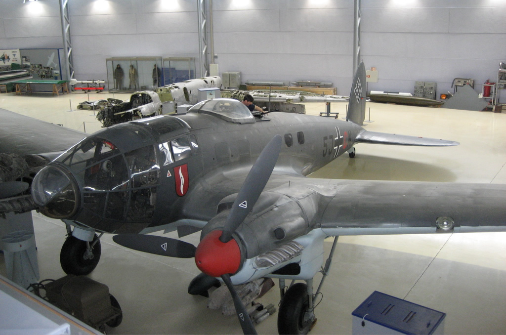 Research images of the He 111 P-2 (Wknr. 1526, Stkz 5J+CN) with me in the top gunners/radio operators station, located in the Norwegian Armed Forces Aircraft Collection, Gardermoen, Norway. Note the lack of cowling over the starboard (right) DB 601 engine. This is the only 111P, and only one of 4 reasonably intact He 111's, existing.